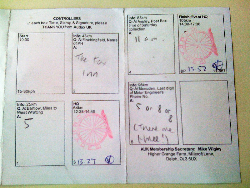 Uploaded by the author, this image shows a brevet card from a 100 km 'Brevet Populaire', illustrating stamps from manned controls and the answers to questions at information controls.